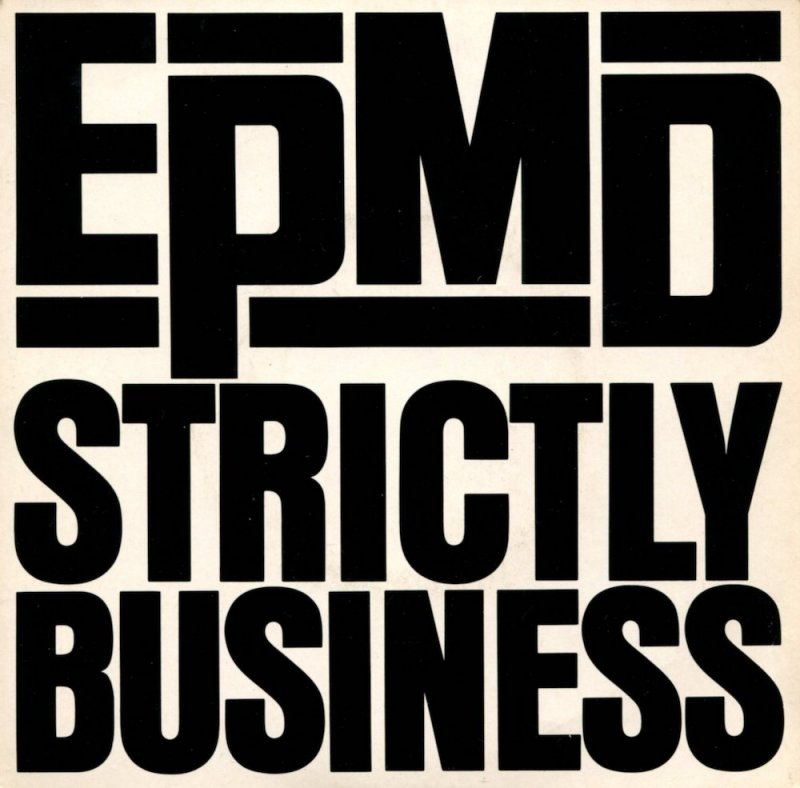 Album cover of the EPMD 12-inch single "Strictly Business". This is the 1988 United Kingdom version of the single that was released on Cooltempo Records.